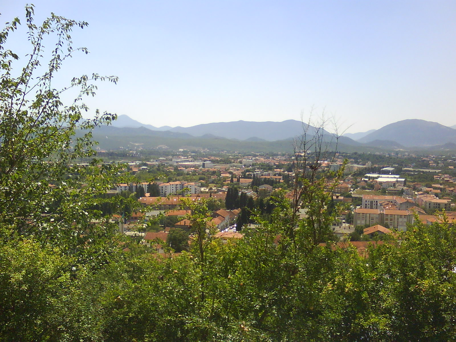 Panorama photos of Ljubuški